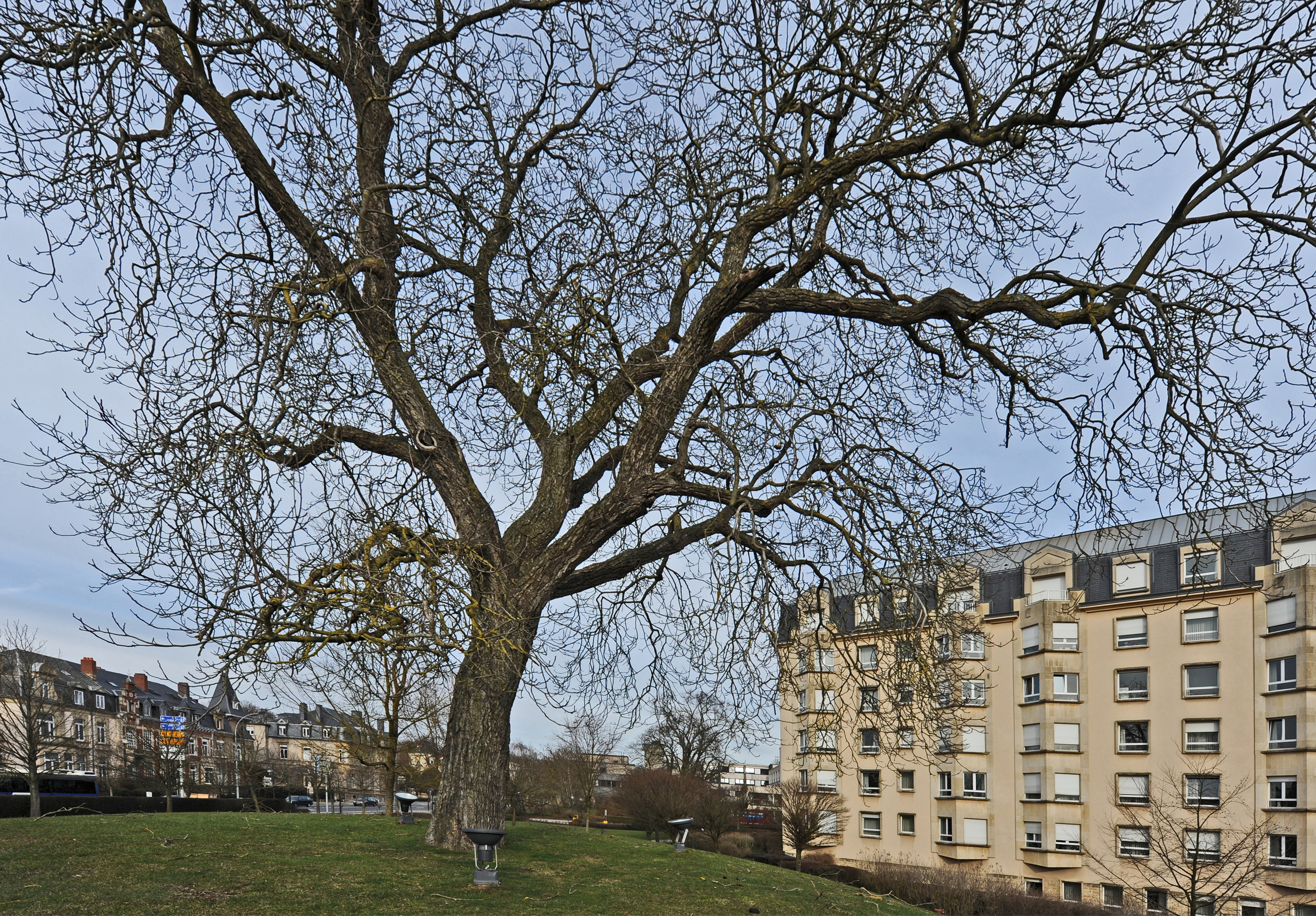 Luxembourg City: walnut close to the Résidence Grand-Duchesse Joséphine-Charlotte (at right) in the so-called Konviktsgaart. This walnut is listed among the Remarkable trees in Luxembourg.